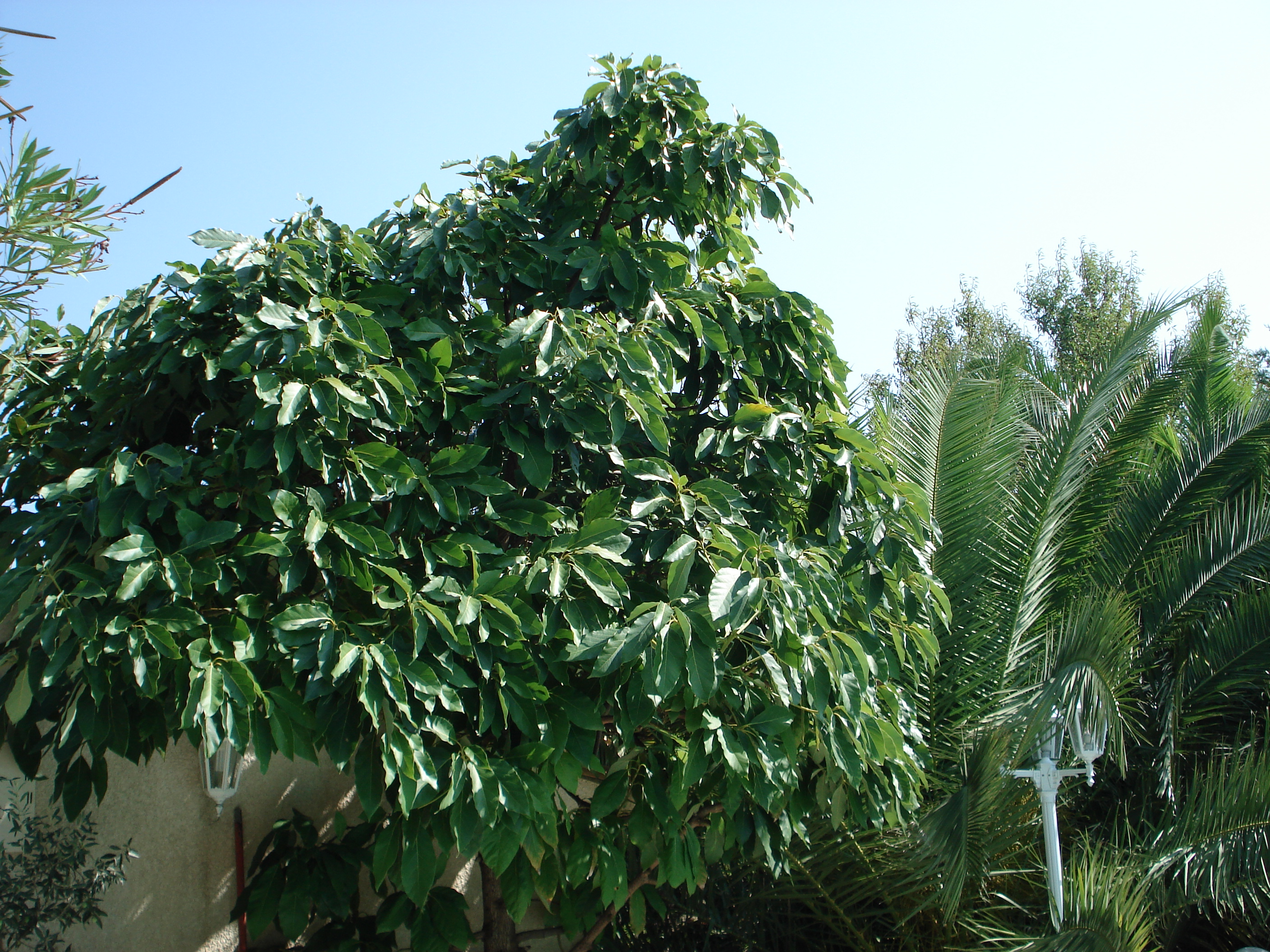 Beauvoisin (Gard, France) - Avocado tree having fruited in the south of France (USDA 8b). Approximately 30 years old, this avocado tree underwent several entire defoliations, but it blooms almost every year and comes even to make fruit. Several avocado trees, of the same age, in the village.